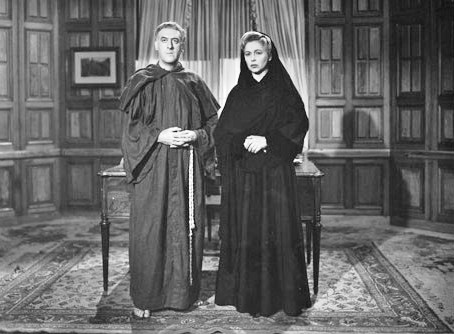 Argentine actors Adolfo Linvel and Josefa Goldar in The Corse Brothers (1955).